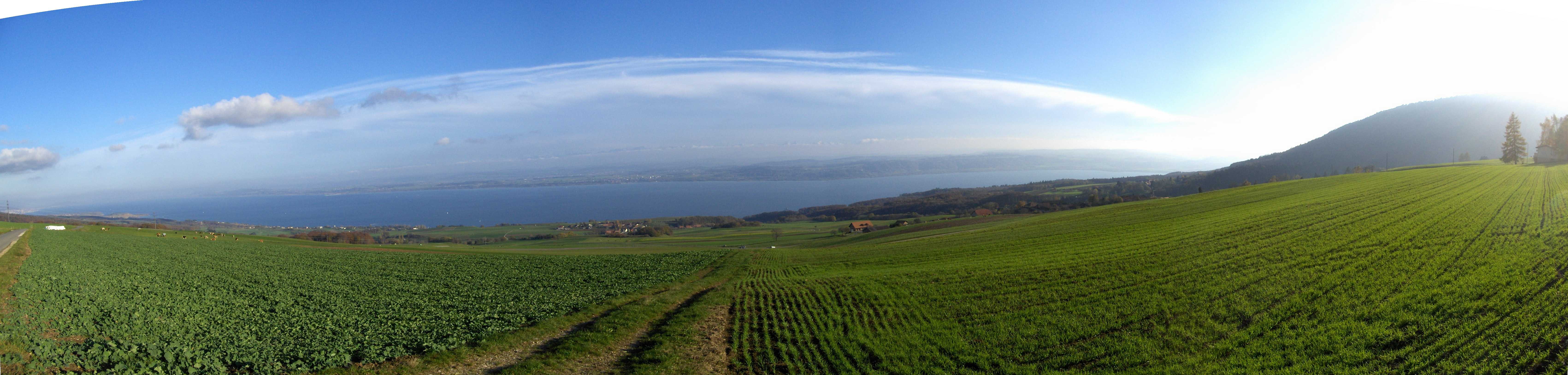 Panorama of La Béroche